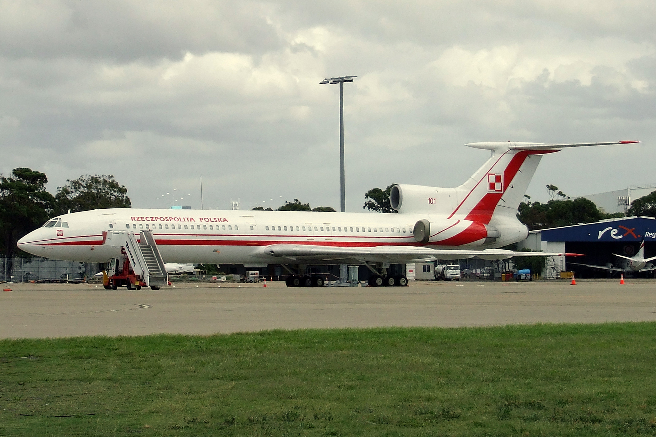 Polish Air Force Presidential transport Tupolev Tu-154 at Sydney Airport in Australia. Digital photo of 101 taken by YSSYguy on 27 March 2007 and uploaded for use in the Air transports of heads of state and government article. Destroyed in the en:2010 Polish Air Force Tu-154 crash.